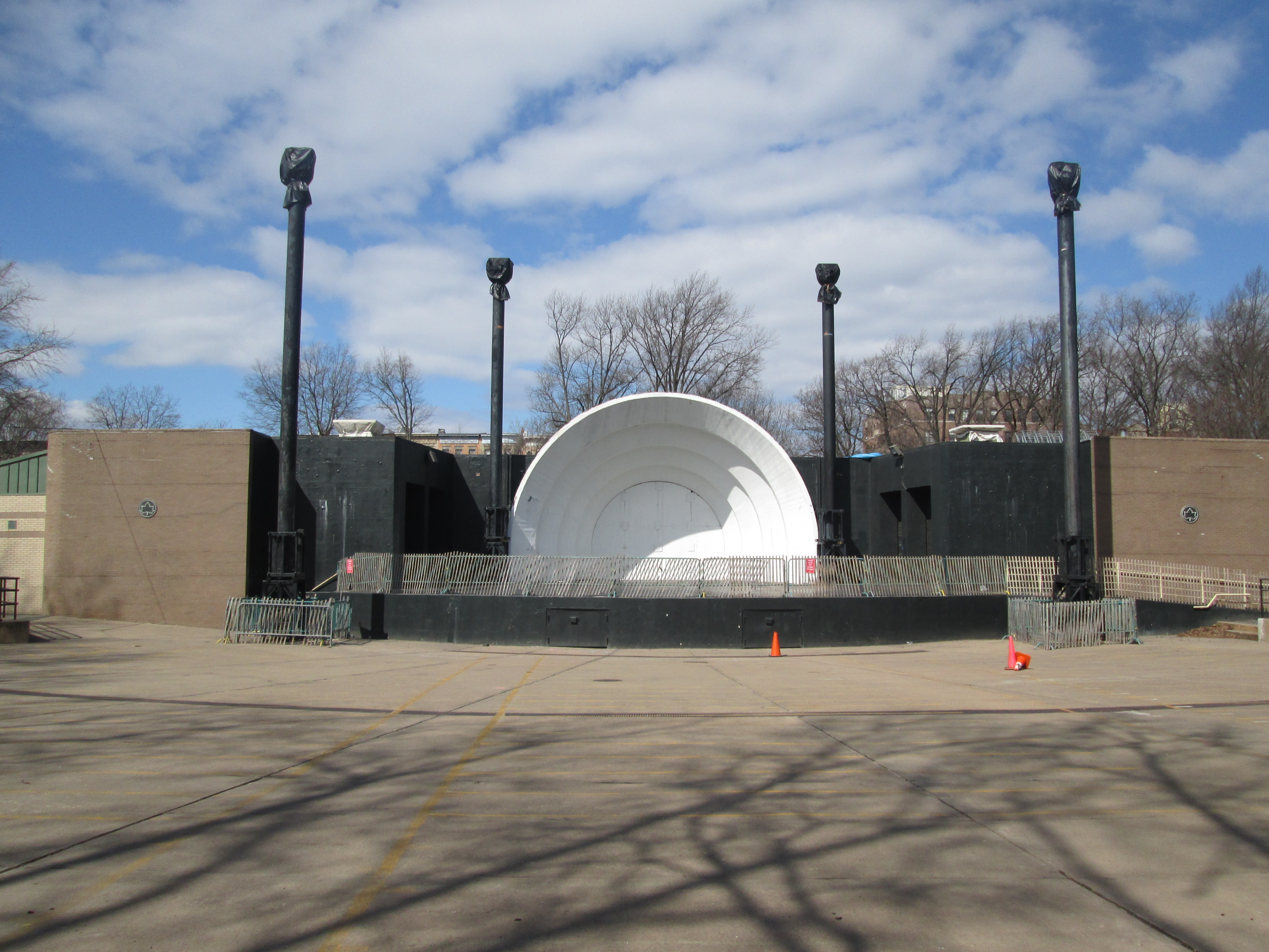 Prospect Park in Brooklyn, New York; bandshell